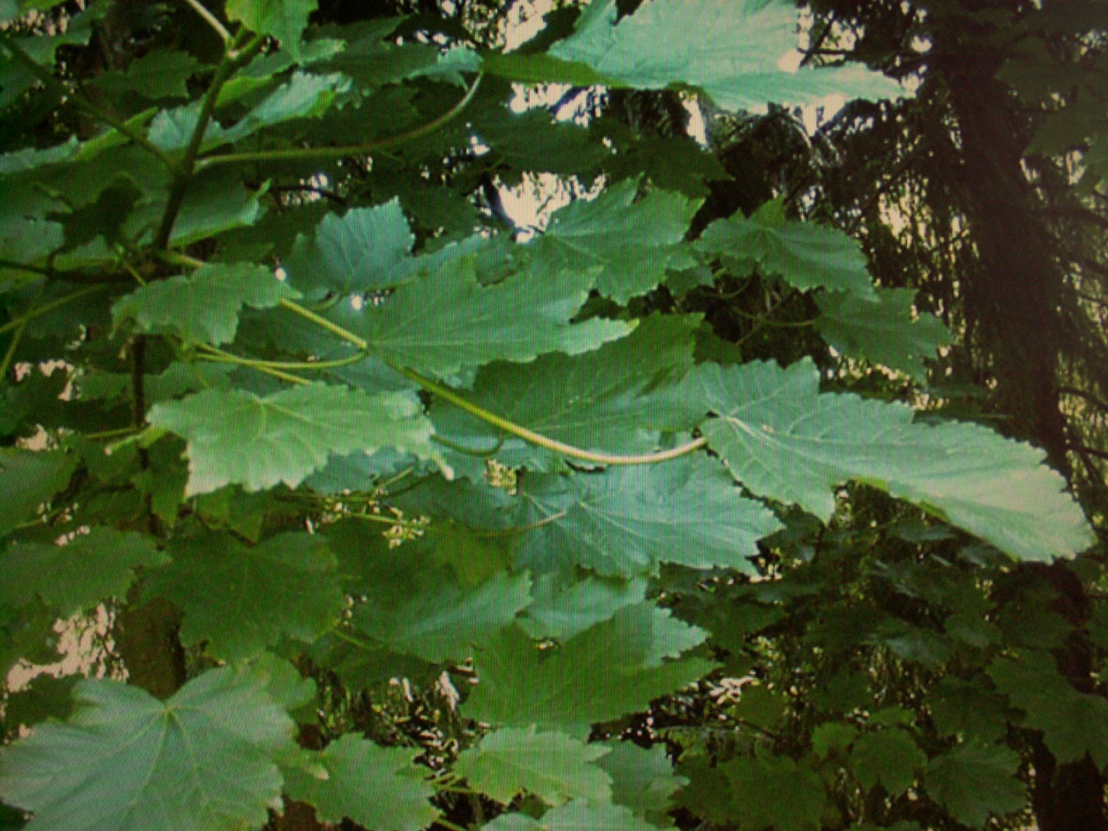 Persian maple